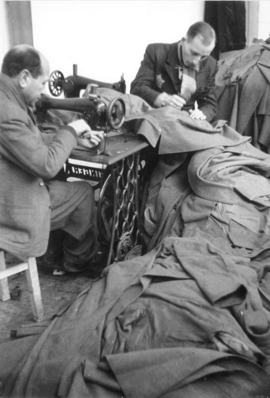 GhettoLitzmannstadt, workers in one of the clothing workshops.